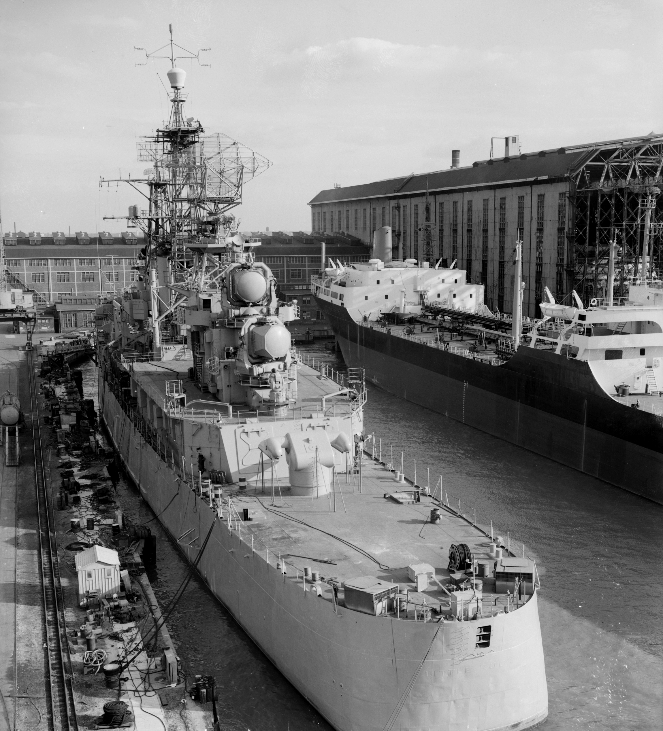 The U.S. Navy guided missile cruiser USS Little Rock (CLG-4), view looking forward along the port side, from off the after superstructure, 19 December 1959. The photo was taken at the New York Shipbuilding Corporation shipyard, Camden, New Jersey (USA), while she was completing conversion to a guided missile ship. Note SPG-49 guidance radars for Little Rock´s RIM-8 Talos missile system (in lower right) and the very large diamond-shaped antenna for her SPS-2 height-finding search radar (atop the after superstructure); SPS-17 and SPS-10 radar on the foremast, and TACAN URN-3 on the mainmast.